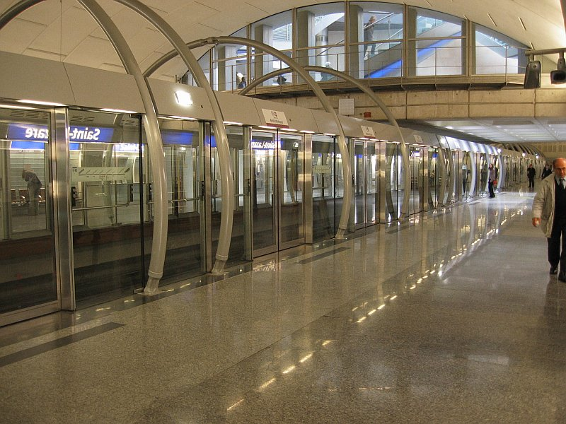 Paris Métro, station Saint Lazare (line 14) with Platform screen doors